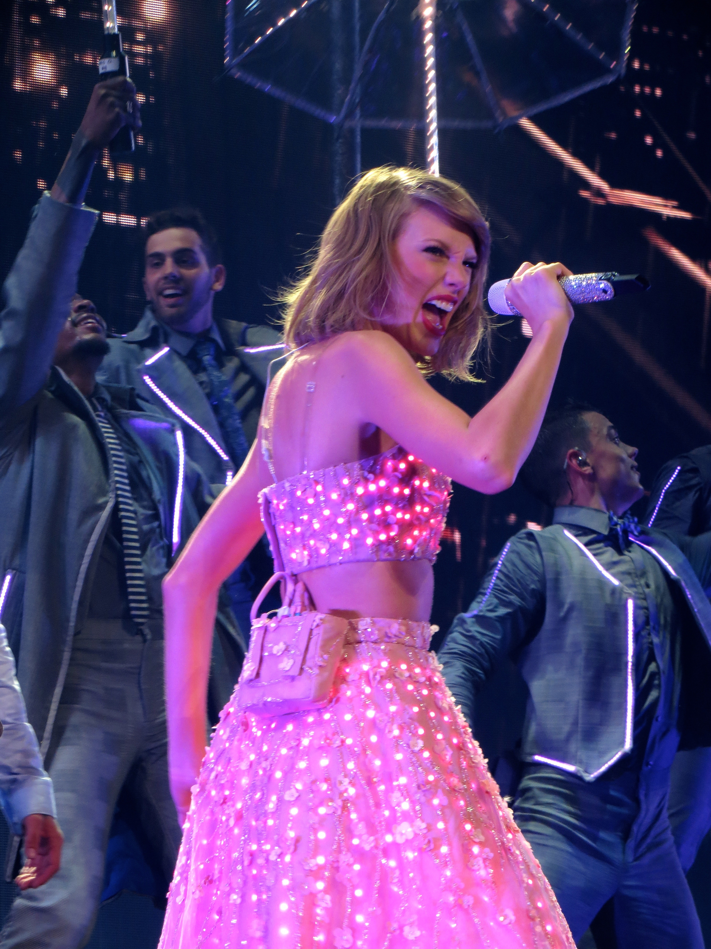 Taylor Swift 7